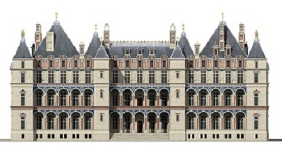 Façade du château de Madrid au Bois de Boulogne.